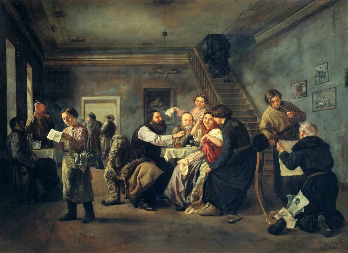 Andrey Popov's An Eating House", a Russian Realist interior, painted in 1859 and now in the Tret'yakov Gallery, Moscow